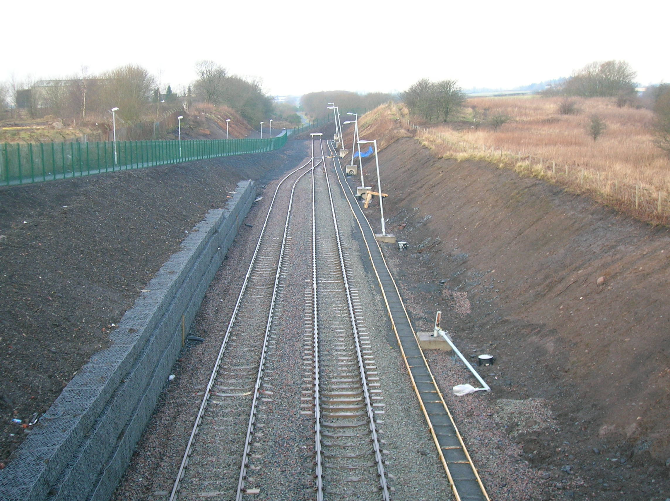 New coal sidings on the old G&SWR route to Dalry at Kilmarnock, East Ayrshire, Scotland